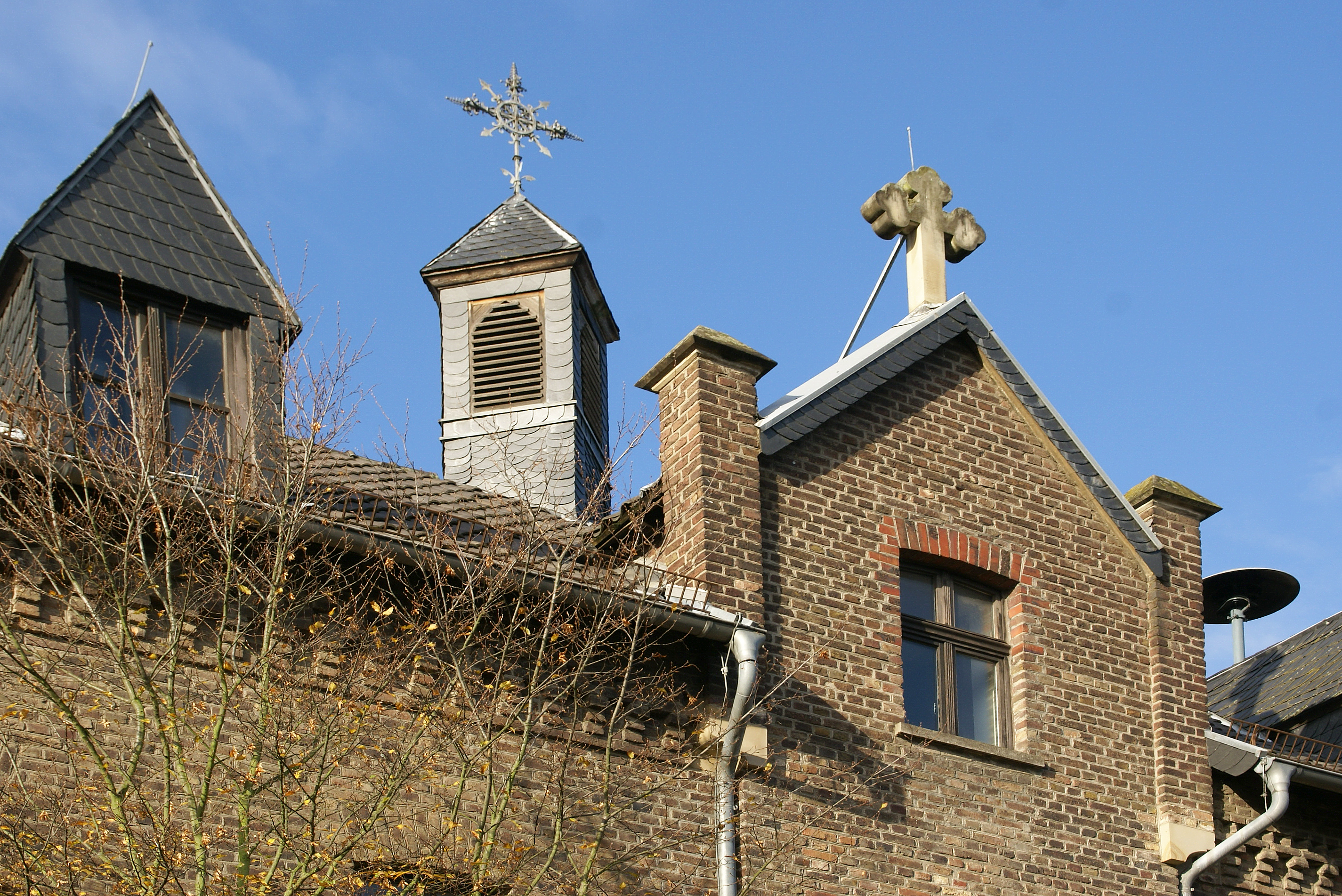 Crosses and other structures on the roof of the former monastery in Heimerzheim, Kölner Straße 23